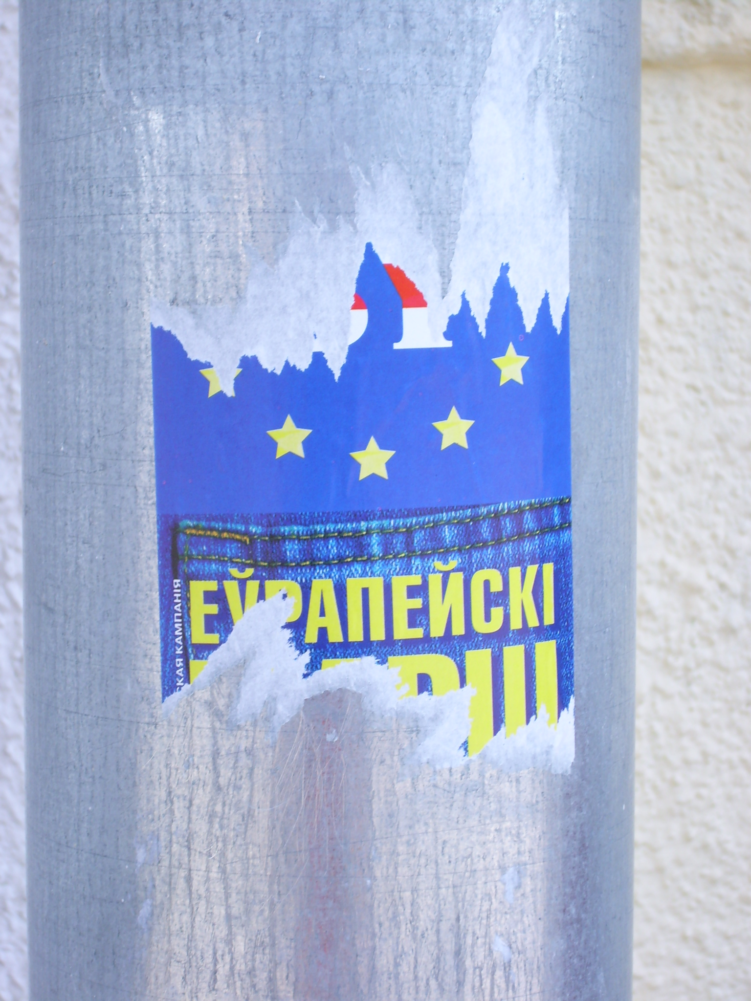 The Belarusian oppositon sticker with an emblem of "European march" on a rain gutter (drain pipe)Беларуская (тарашкевіца): сарваная налепка з заклікам на акцыю "Эўрапейскі Марш" на вадасьцёкавай трубе, ліпень, 2007 год